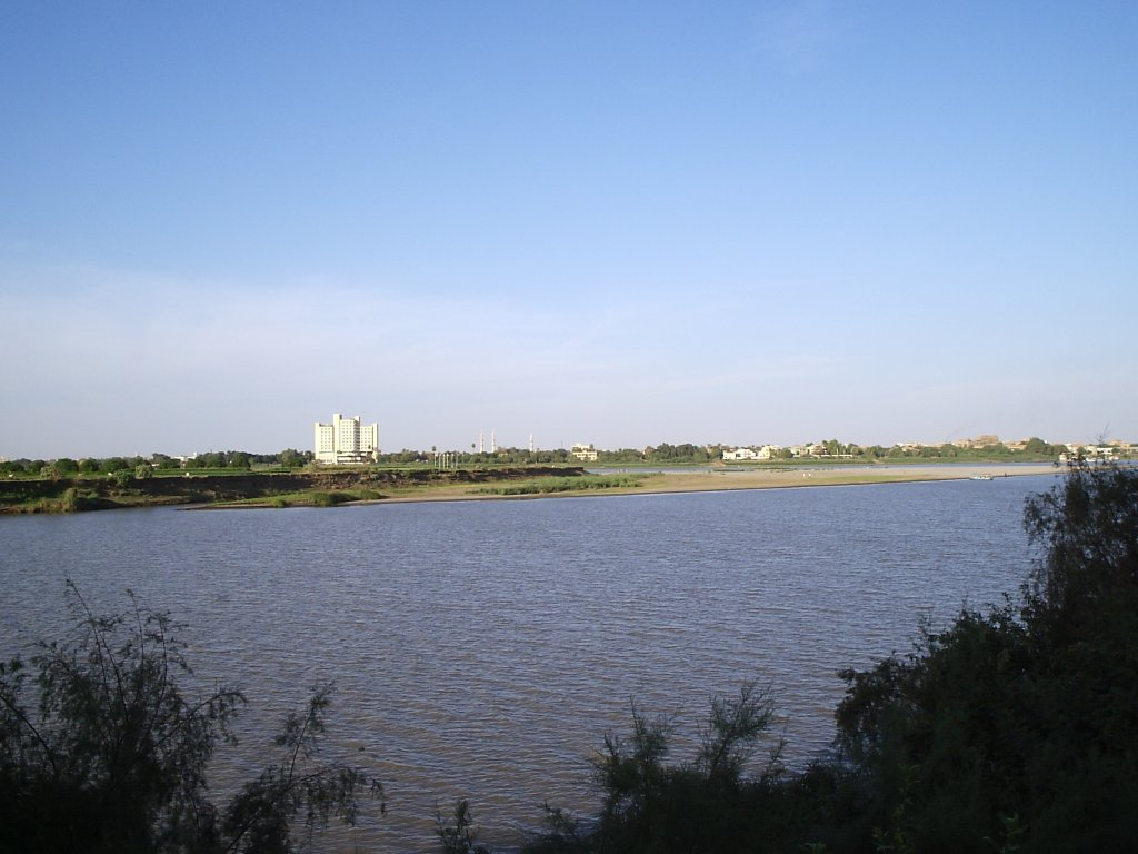 Blue Nile, a photo from Nile Street khartoum.